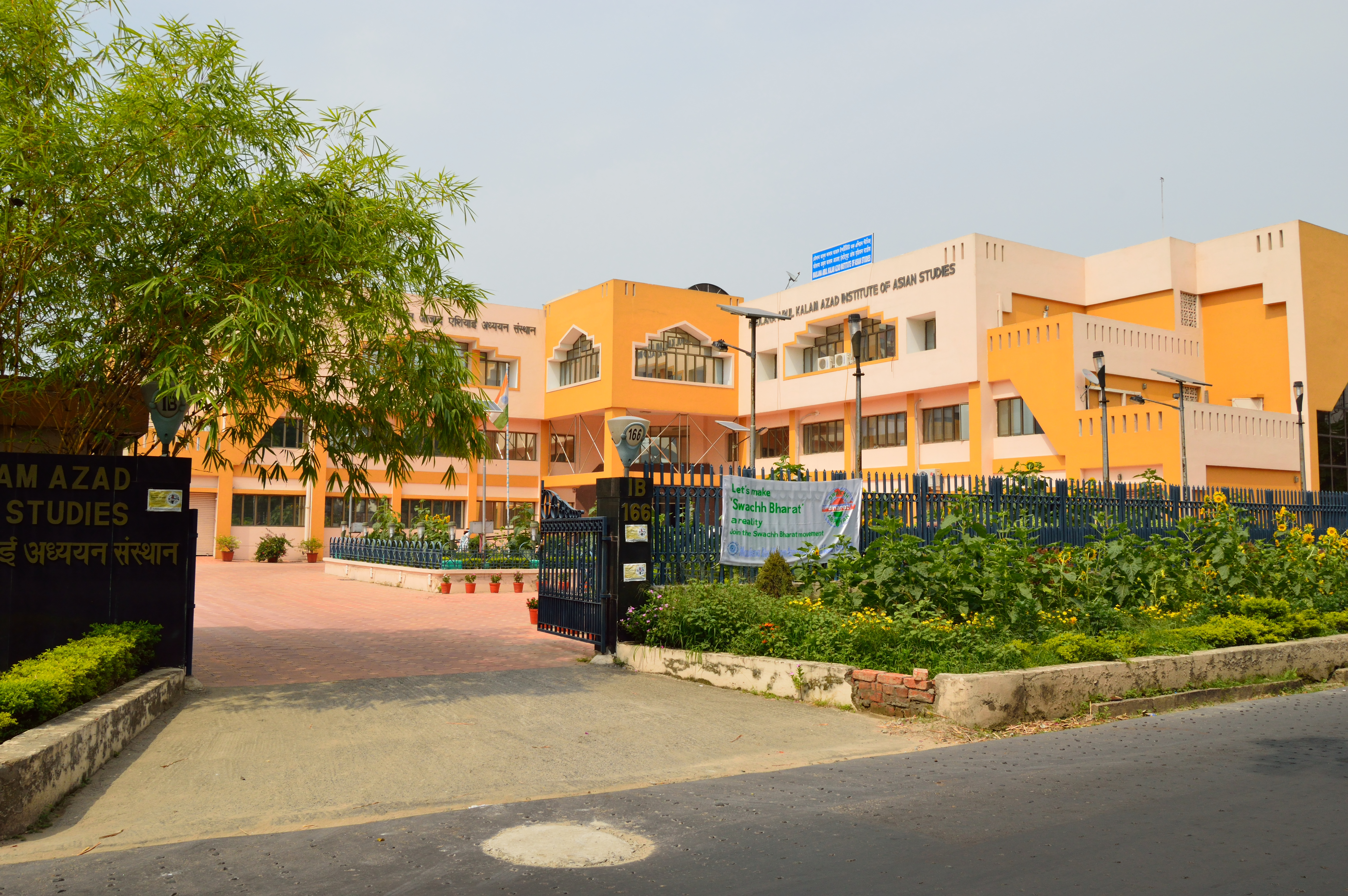 The Azad Bhavan of the Maulana Abul Kalam Azad Institute of Asian Studies (MAKAIAS) under Ministry of Culture, Govt of India at IB Block, Salt Lake City, Kolkata, West Bengal 700106.